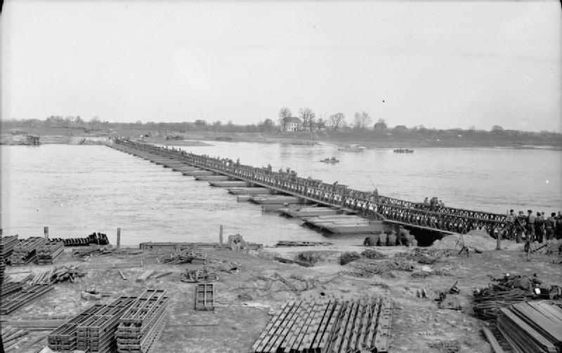 The British Army in North-west Europe 1944-45 A Class 40 pontoon bridge over the Rhine, 25 March 1945.